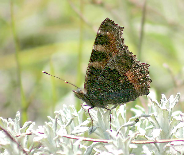 Indian Tortoiseshell Aglais caschmirensis taken in Kullu distt. of Himachal Pradesh, India during Saurkundi Pass Trek.